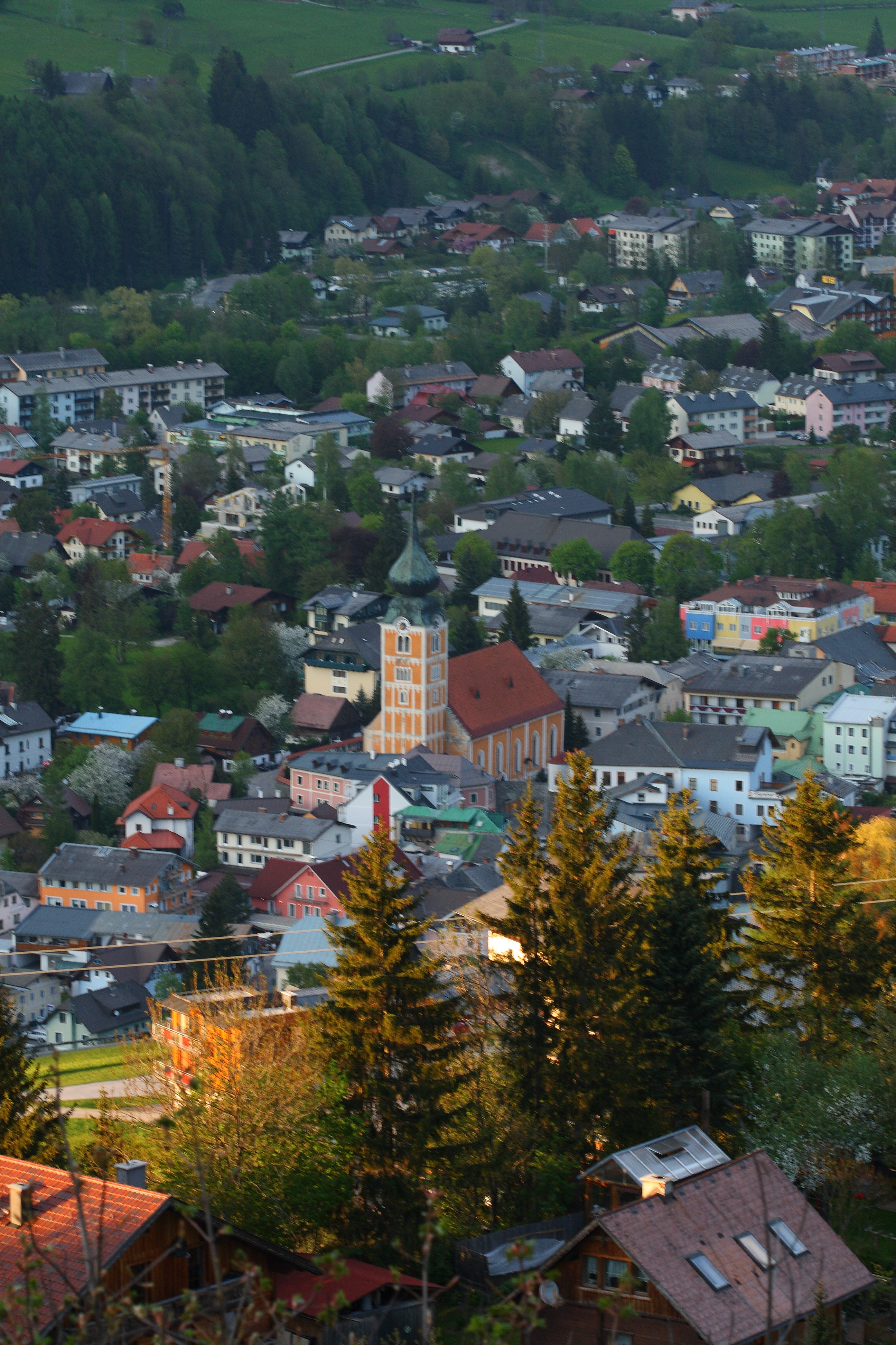 Schladming, Styria, Austria